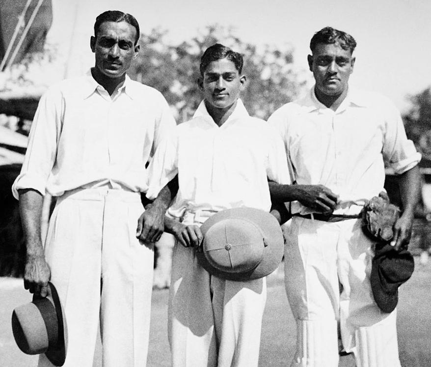 Indian cricketers Cottari Kanakaiya Nayudu (left) with his brothers Cottari Subbanna Nayudu and CL Nayudu at Indore circa 1934.